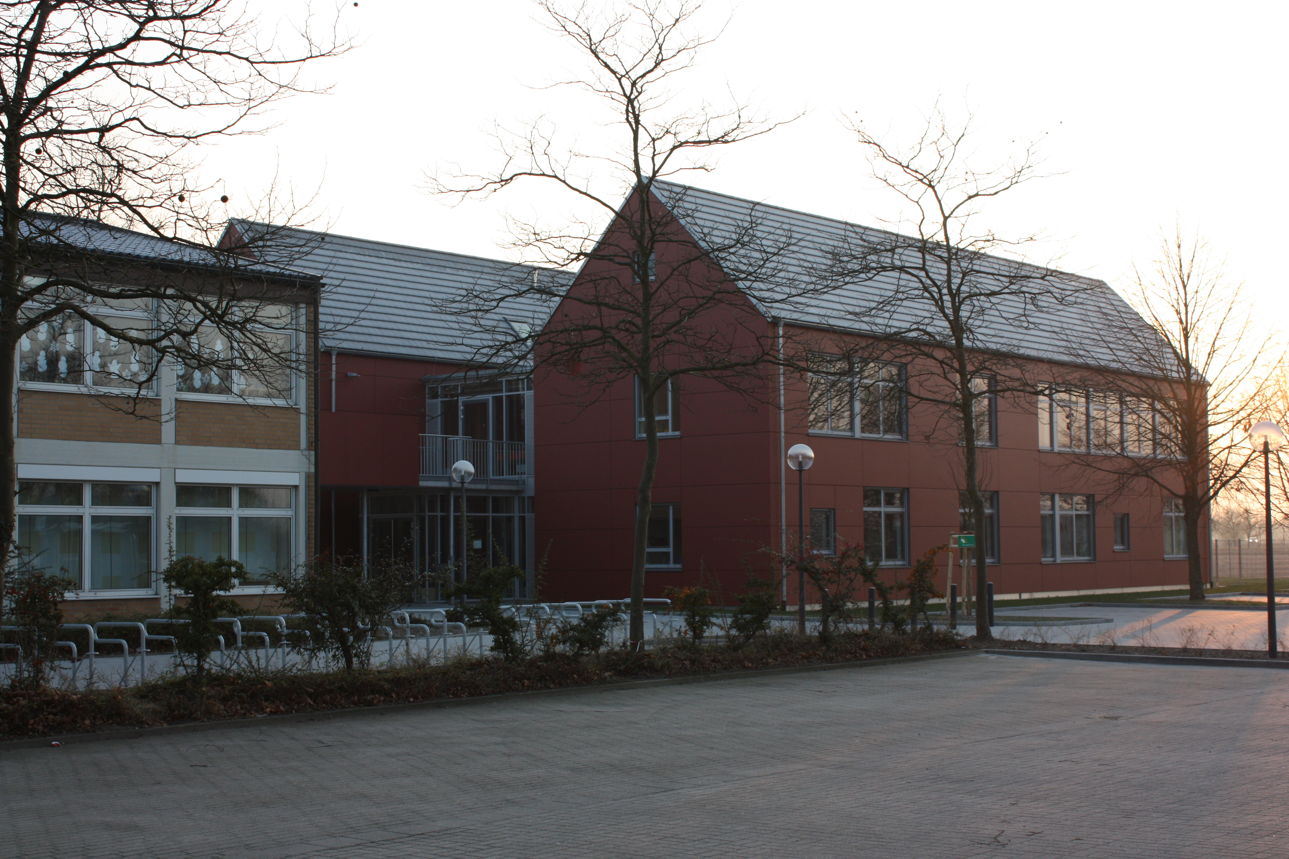 The new "Kinderschule Ottersdorf", a kindergarten in the German village Ottersdorf (Rastatt). Photographed on 30th December 2008.